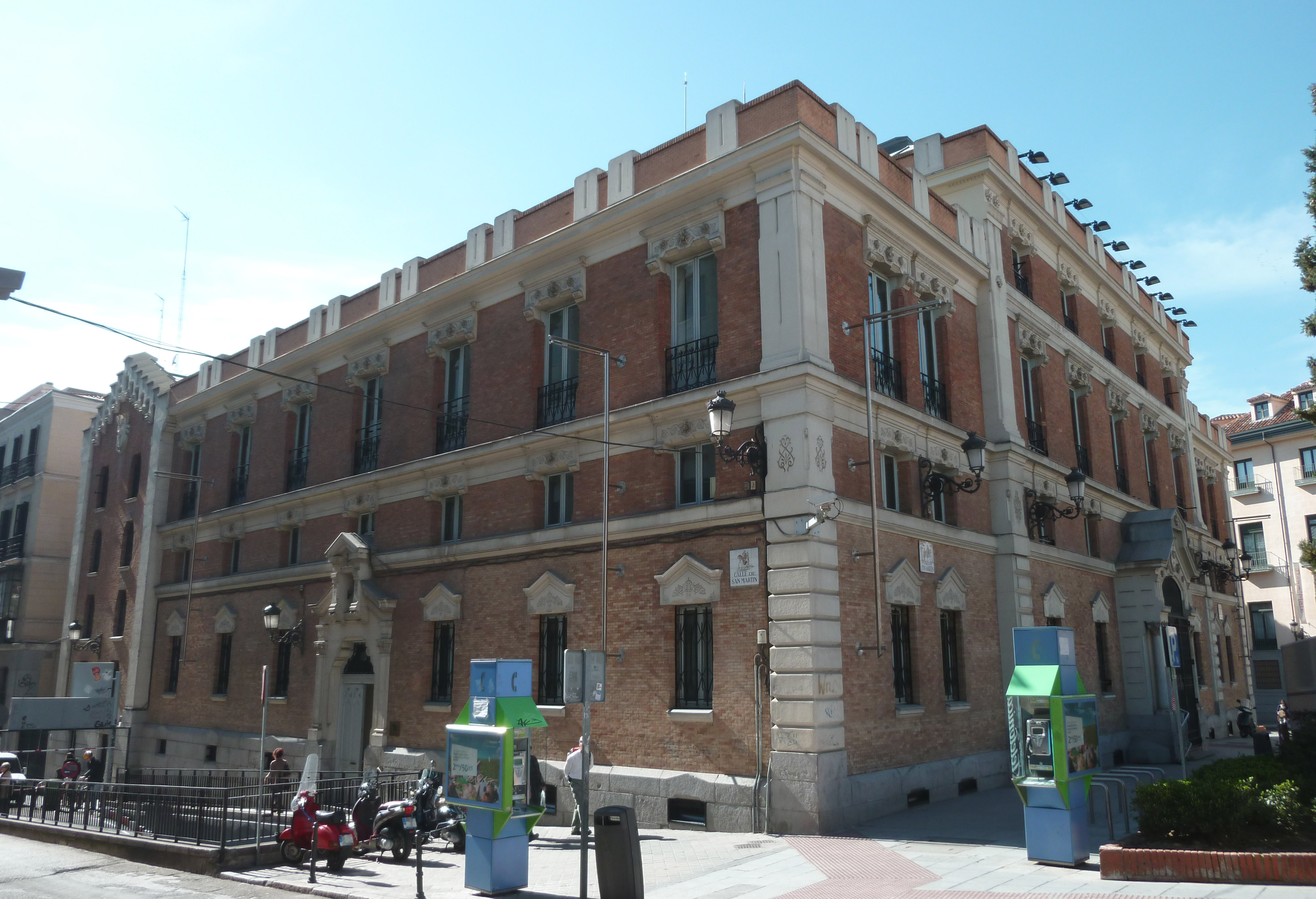 View of Casa de las Alhajas in Madrid (Spain) from the east angle.